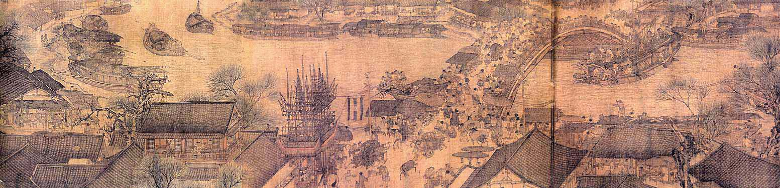 Portion of the Chinese cityscape handscroll Along the River During Qingming Festival, ink and colors on silk, 25.5 × 525 cm.